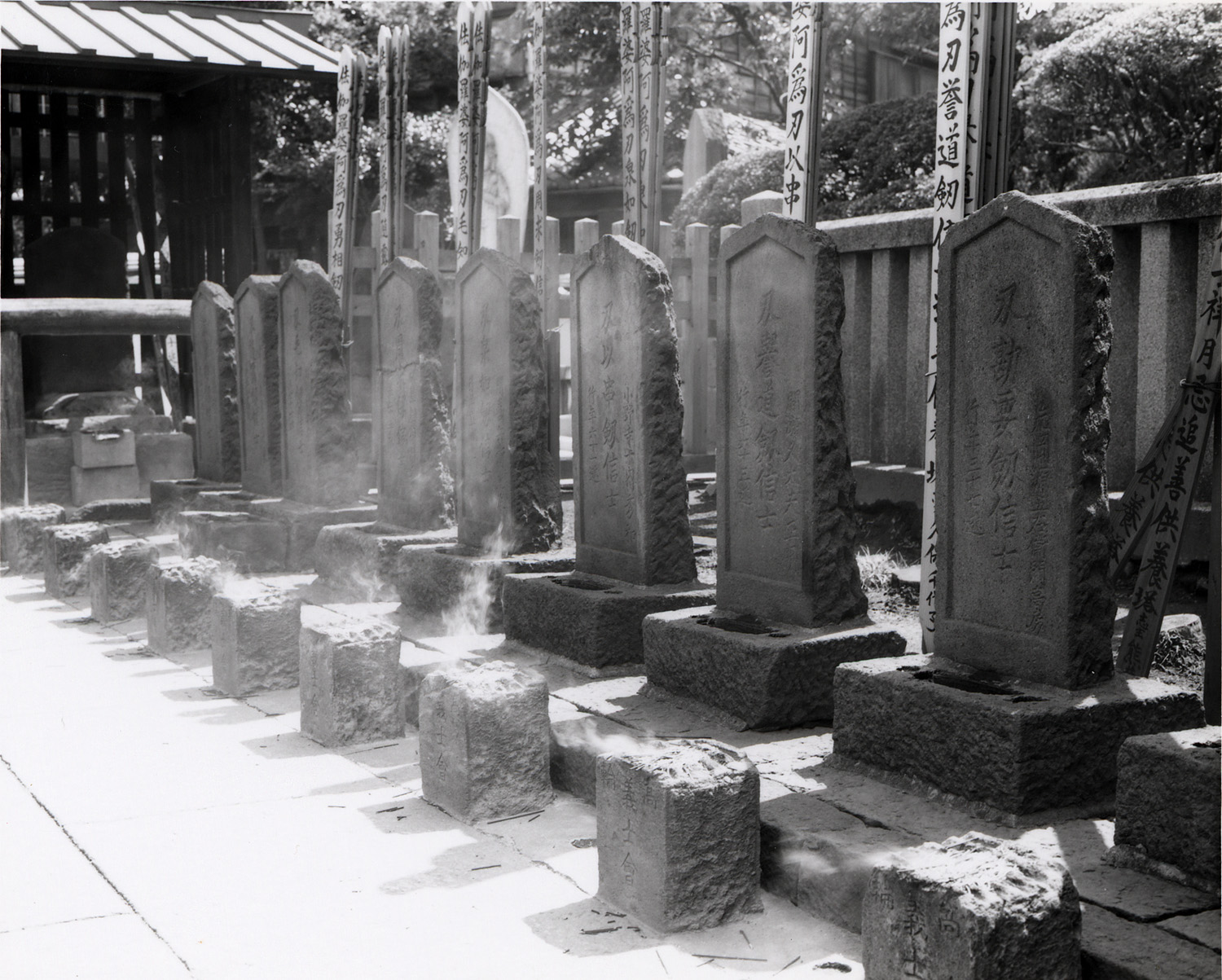 Graves of Forty-seven Ronin at Sengaku-ji, Takanawa, Minato, Tokyo, Japan. I took this photo and contribute my rights in the file to the public domain; individuals and organizations retain rights to the images in it. Inscriptions are difficult to discern. Right:Kataoka Gengoemon? Second from right: ? Third from right: Onodera Junai?